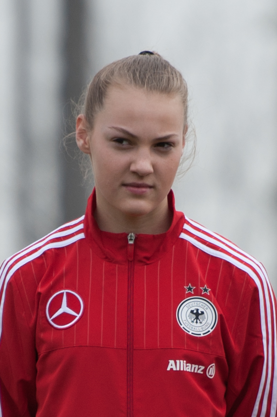 UEFA European Women's U17 Championship elite round Germany vs. Switzerland, 2016-03-19